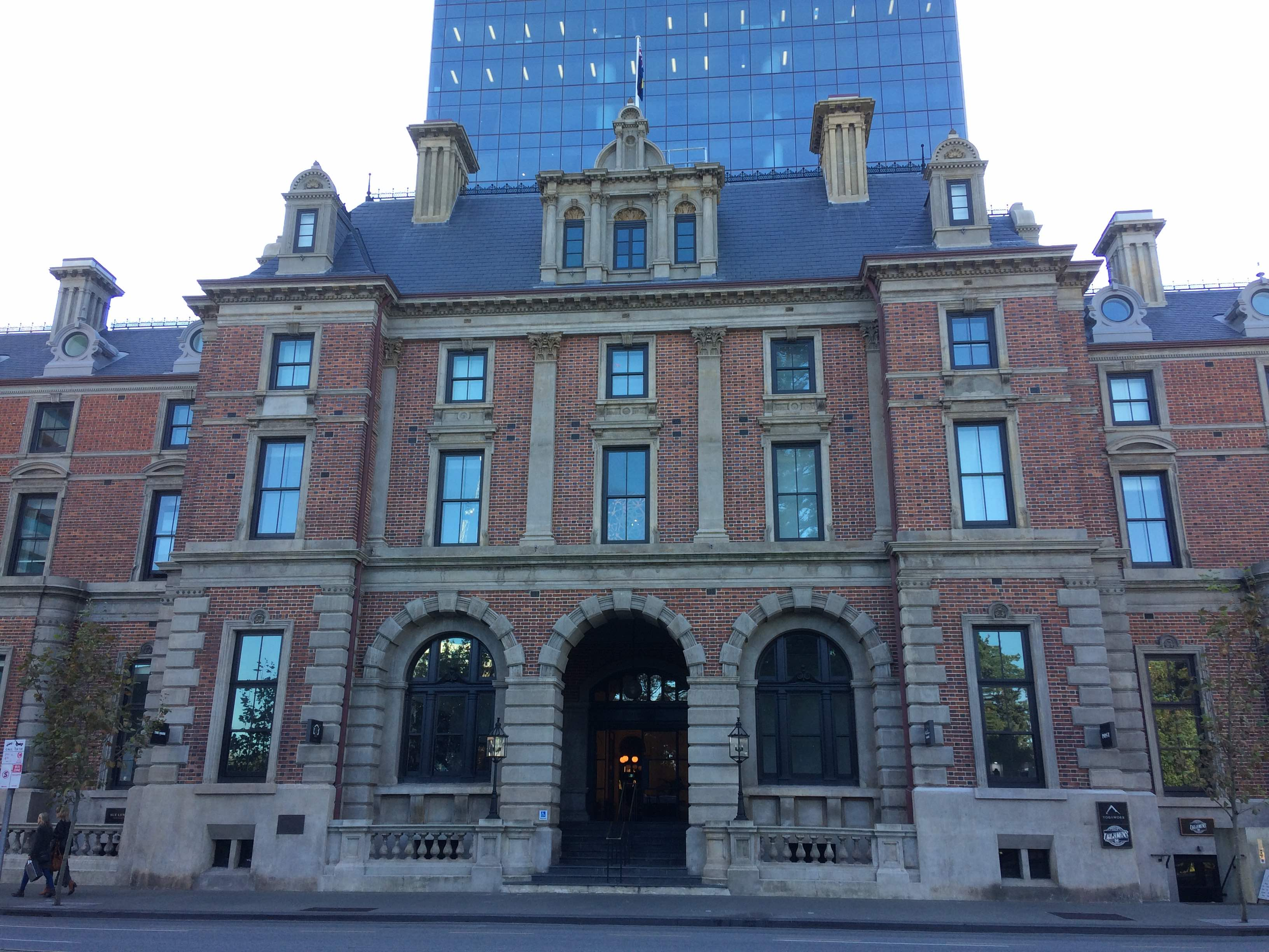 Treasury Buildings, Perth 2018